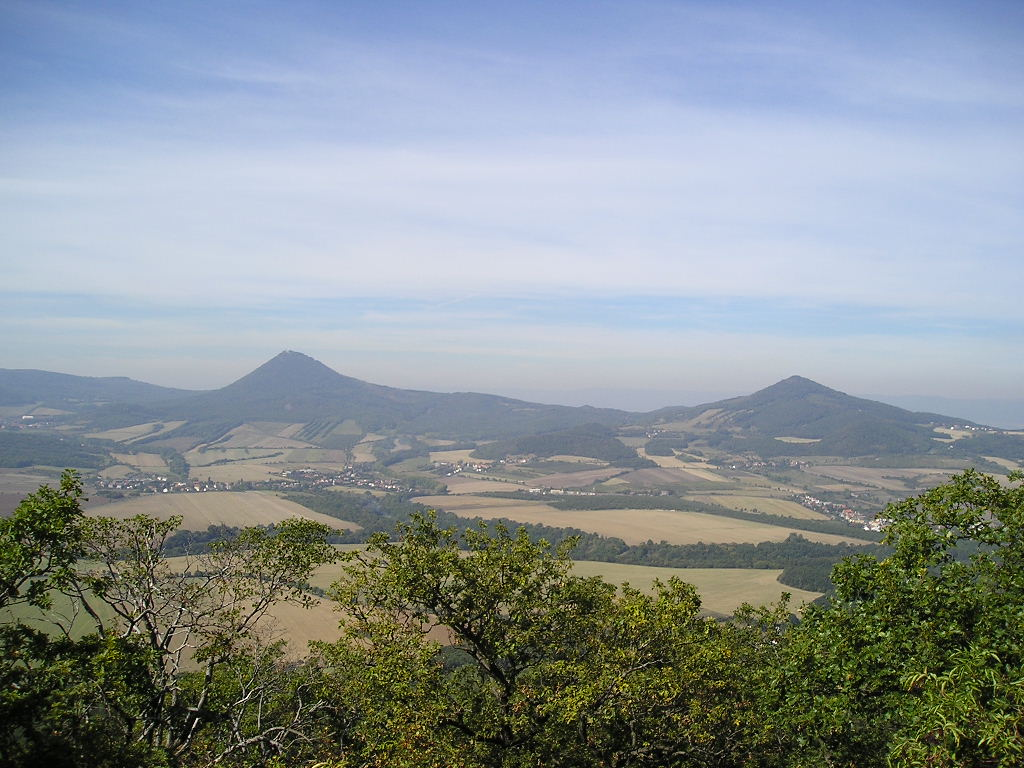 Milešovka (left) and Kletečná as seen from Lovoš.